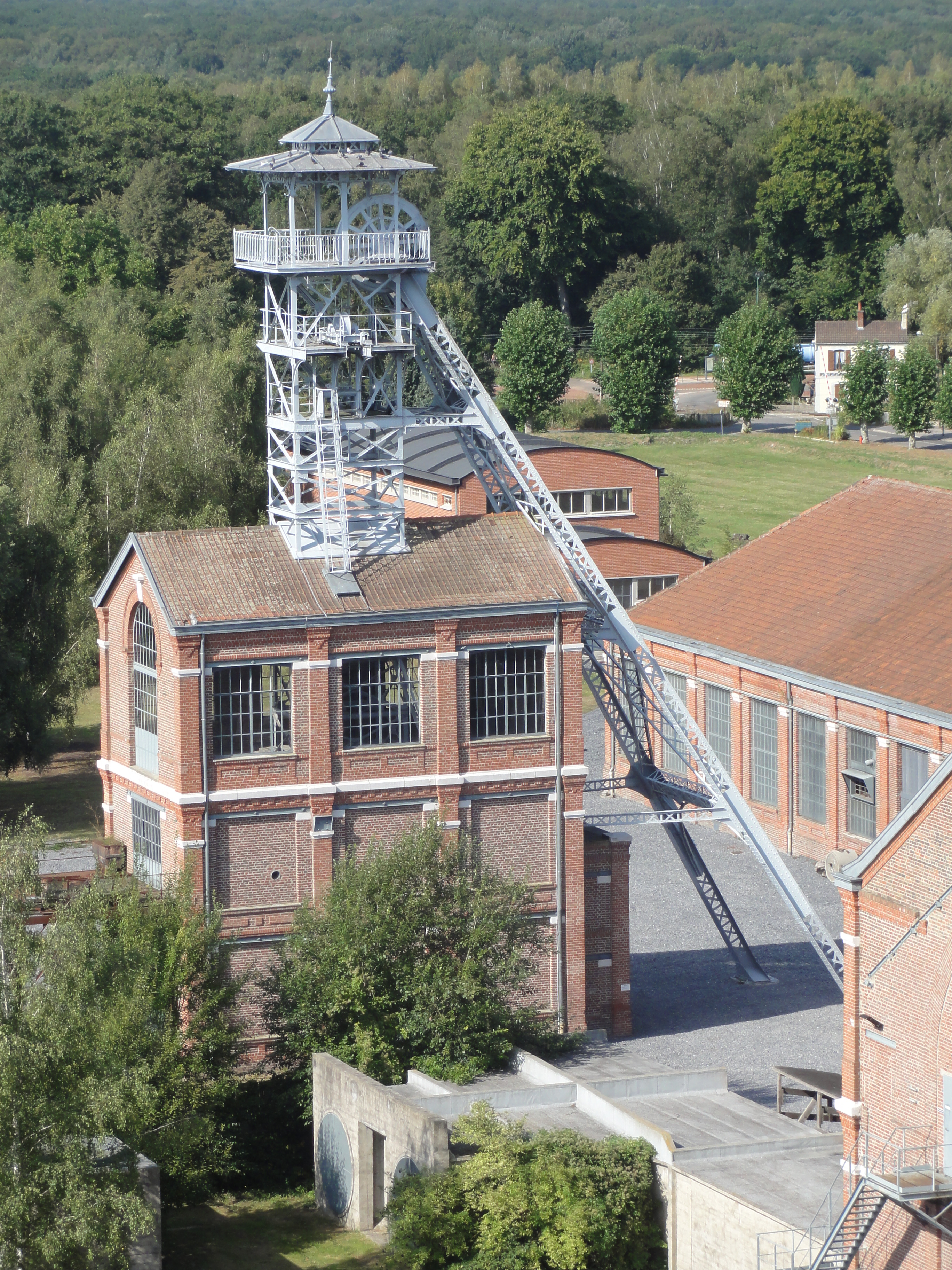 The fosse Arenberg of the Compagnie des mines d'Anzin is a coal mine with three shafts (one has two compartment) located in Wallers, Nord, Nord-Pas-de-Calais, France. The photo shows the headframe of the shaft Arenberg 2, famous to appear in Germinal and L'Affaire Salengro. In the background, you can see the forest of Raismes-Saint-Amand-Wallers. The Paris–Roubaix goes here every year, by passing the Trouée d'Arenberg. The photo has been taken from the top of the headframe 3 - 4, during the European Heritage Days.